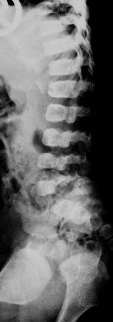 lateral X-rax of lumbar spine in Kniest-Dysplasia showing coronal vertebral clefts